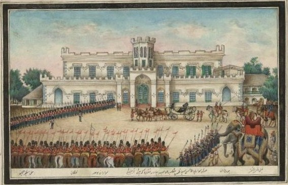 Ink and colours illustration of Ludlow Castle, Delhi. Enlarged, straightened and uploaded by Fowler&fowler«Talk» 11:37, 26 September 2011 (UTC)